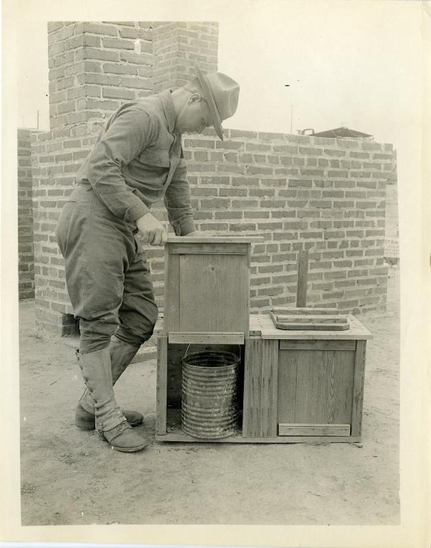 Sanitation : Latrine bucket. World War 1.